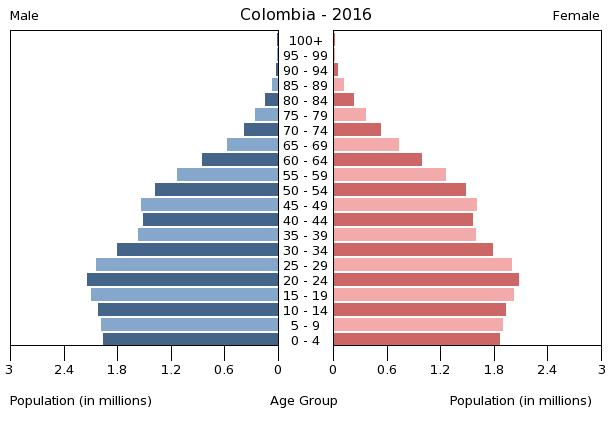 A population pyramid illustrates the age and sex structure of a country's population and may provide insights about political and social stability, as well as economic development. The population is distributed along the horizontal axis, with males shown on the left and females on the right. The male and female populations are broken down into 5-year age groups represented as horizontal bars along the vertical axis, with the youngest age groups at the bottom and the oldest at the top. The shape of the population pyramid gradually evolves over time based on fertility, mortality, and international migration trends.